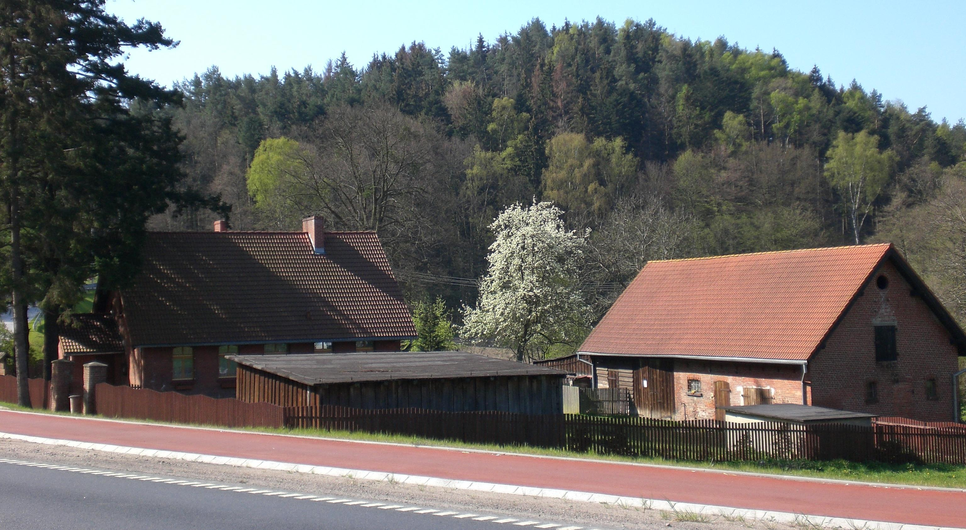 Gdańsk Rynarzewo